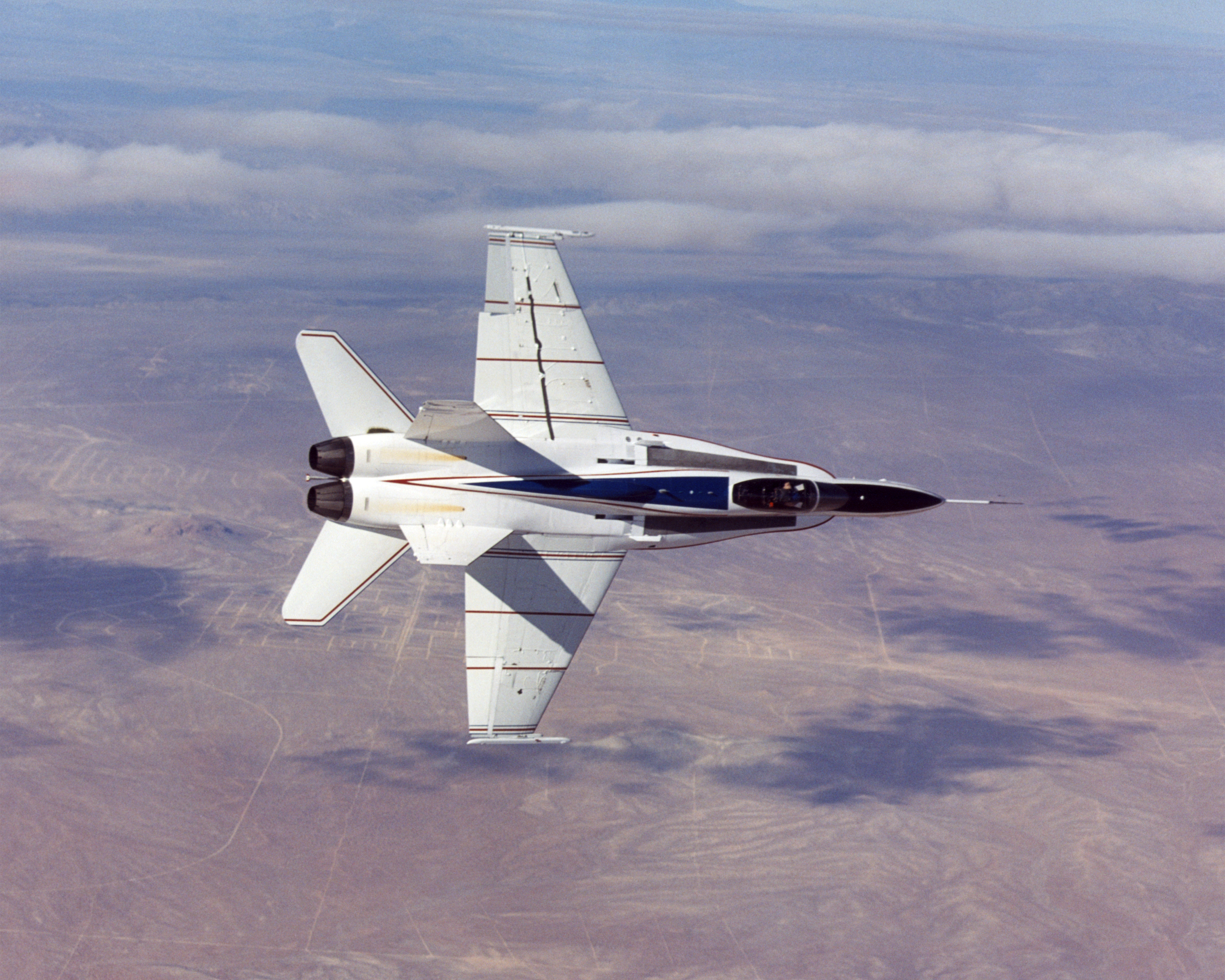 NASA Active Aeroelastic Wing F/A-18 (redesignated X-53) technology testbed aircraft